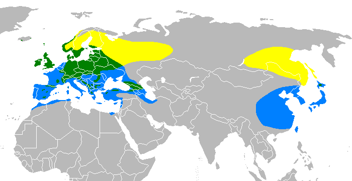 Distribution map of Carduelis spinus. Yellow: breeding summer visitor Green: breeding resident Blue: non-breeding winter visitor